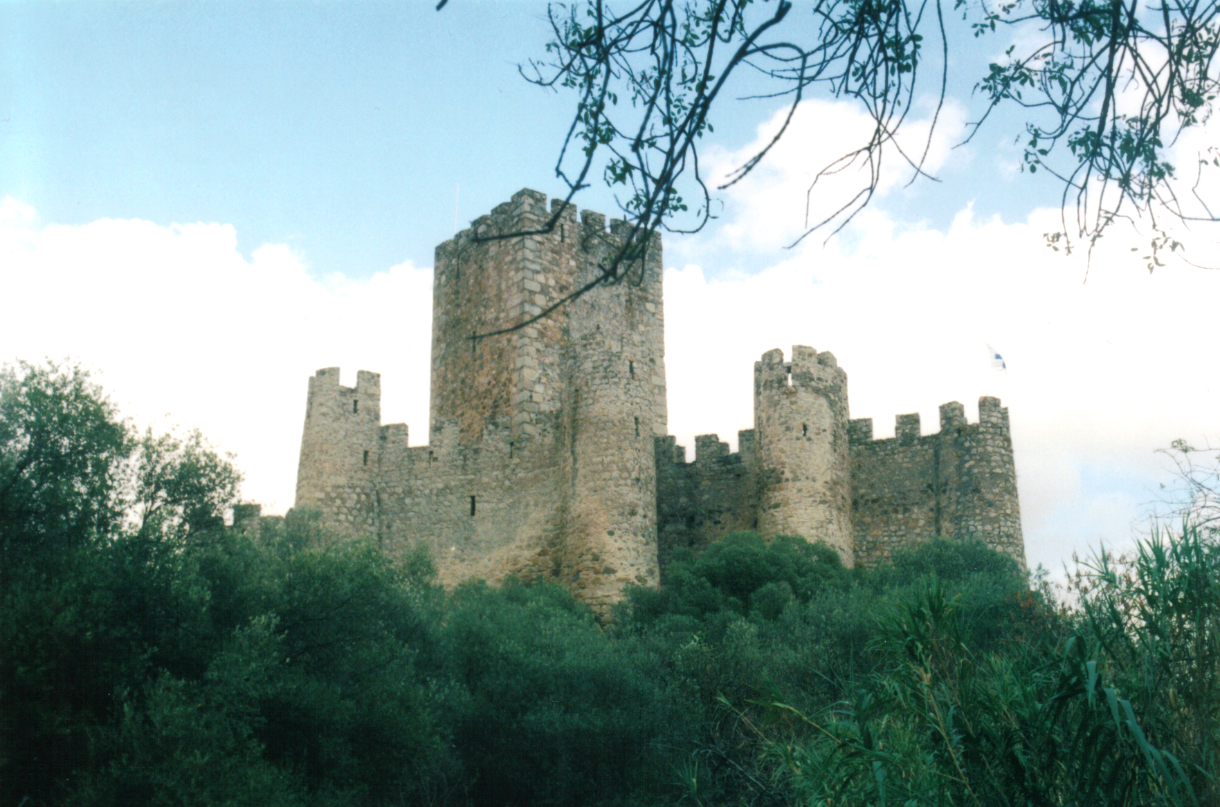 Almourol Castle in Vila Nova da Barquinha, Portugal: General view. Photographer: Lusitana Date: 2002